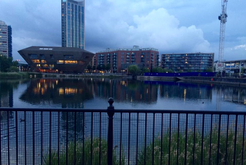 View on June 2016